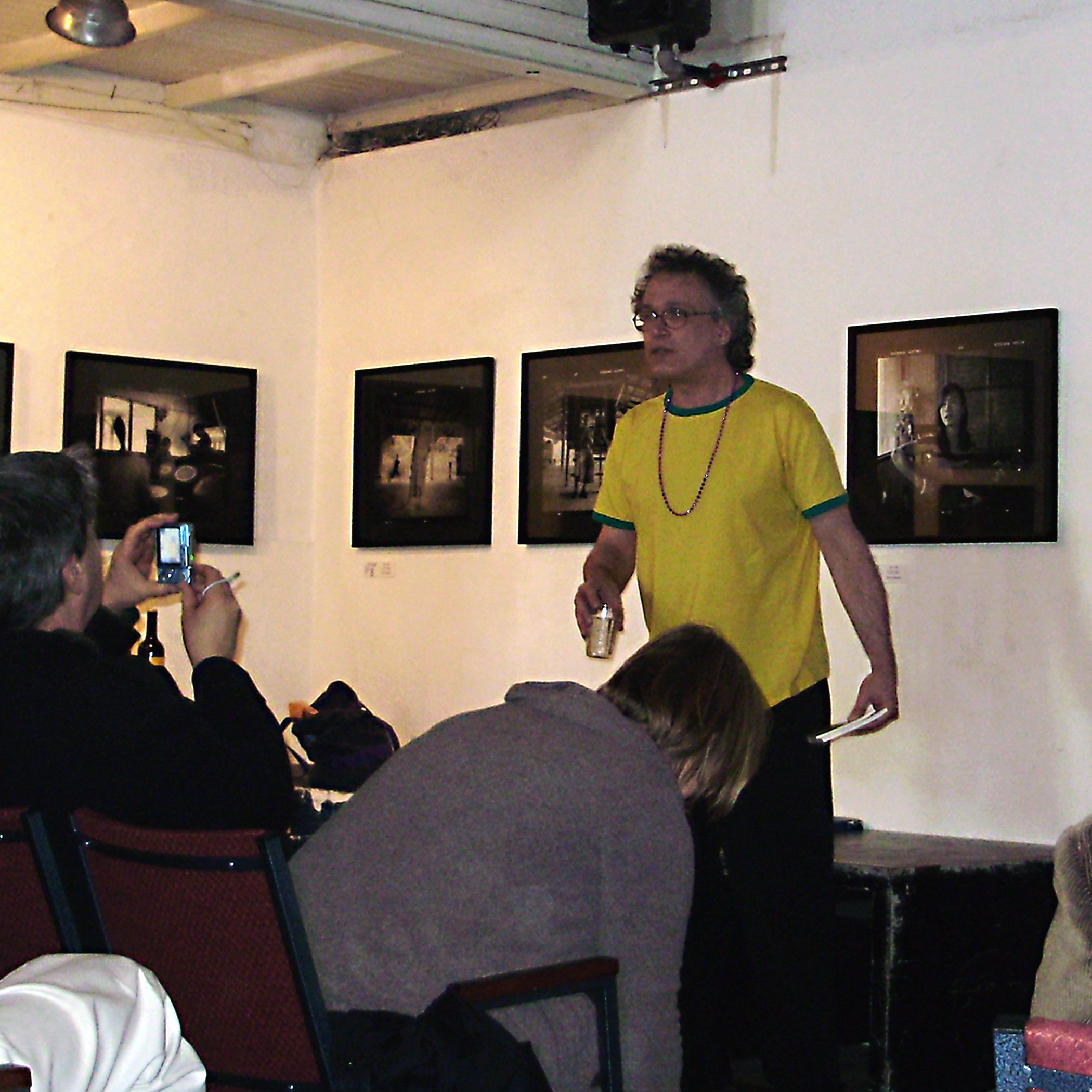 Canadian poet Colin Smith [1] at poetry reading at Artists' Television Access art gallery in San Francisco, California